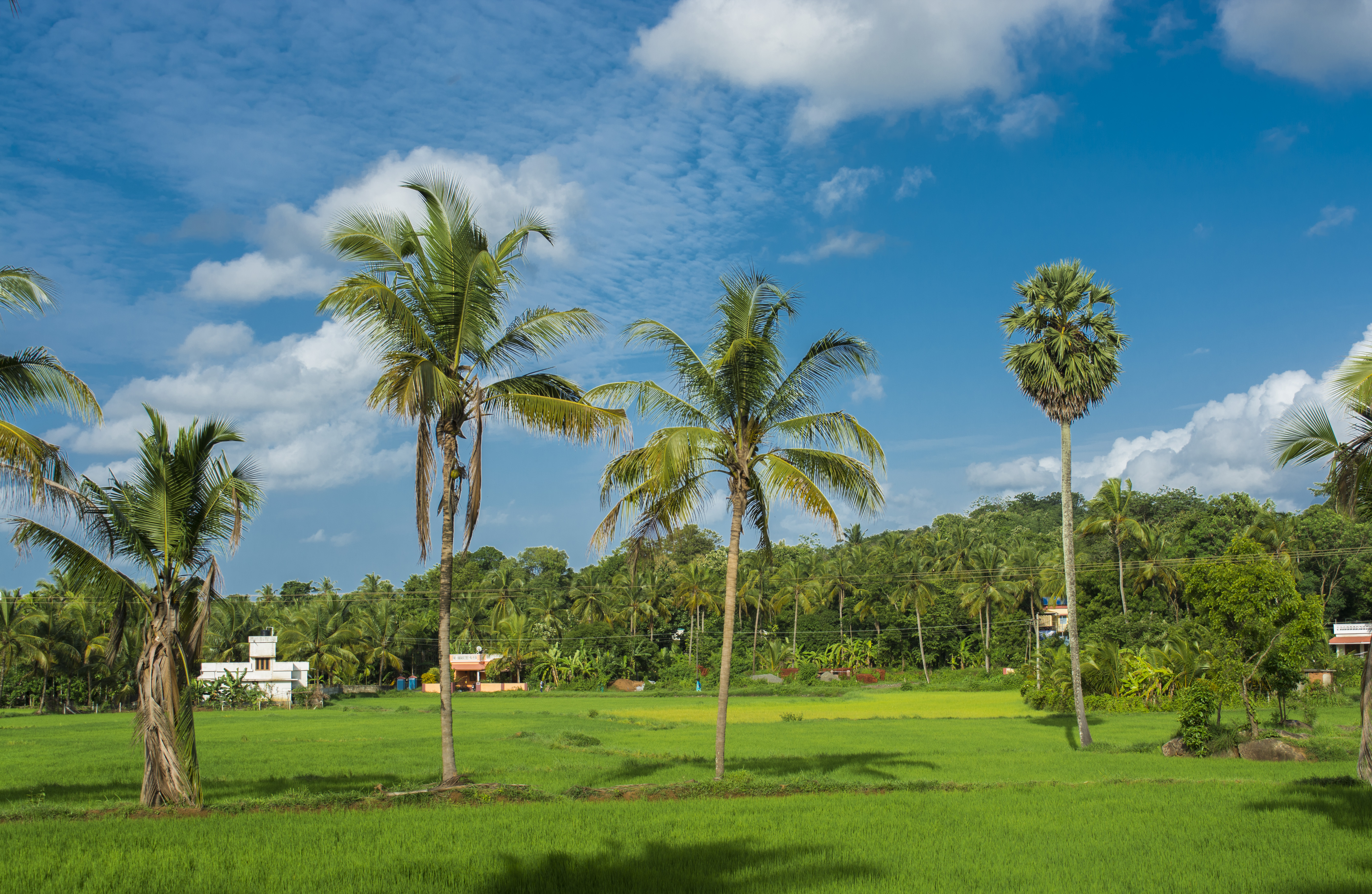 Paddy field in Kerala in Monsoon season